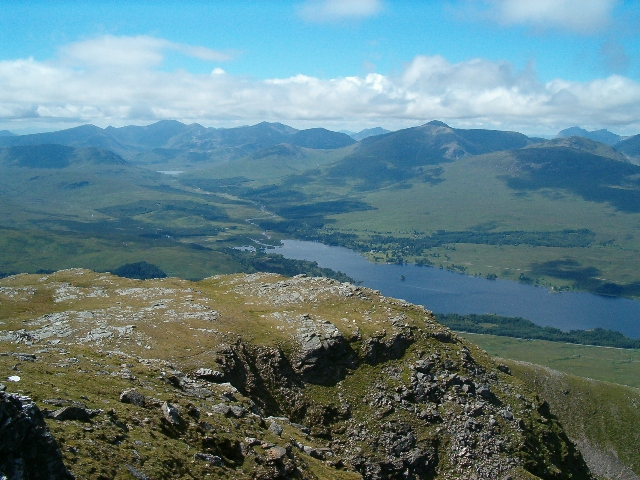 View west from the western summit of Beinn an Dothaidh.